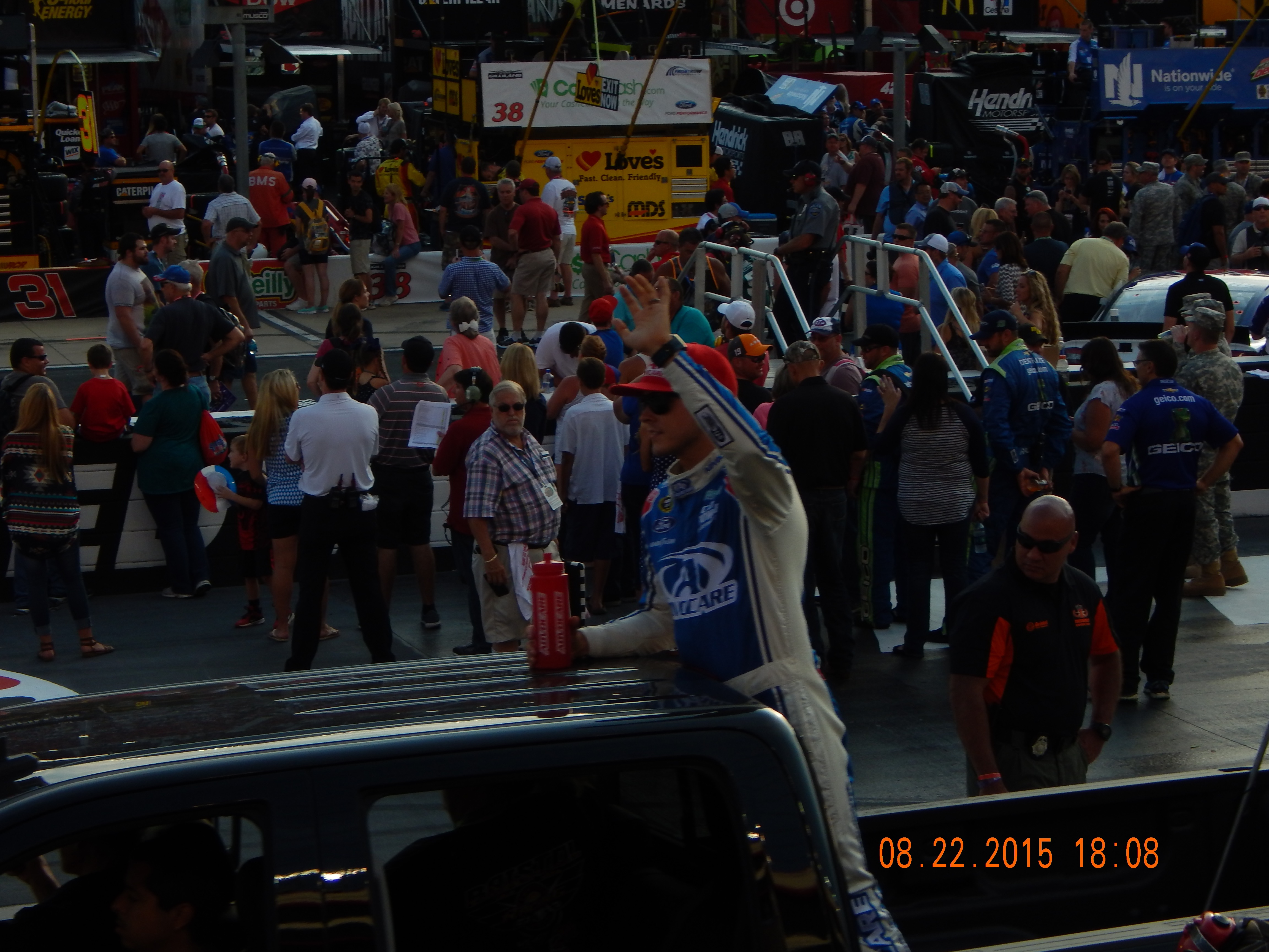 Trevor Bayne being introduced at Bristol Motor Speedway for the Irwin Tools Night Race.